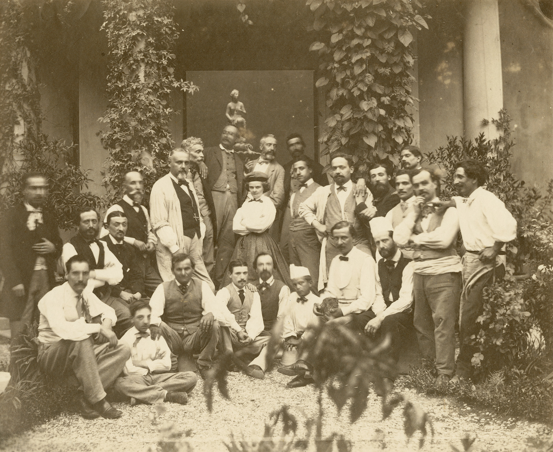 Photograph of Harriet Goodhue Hosmer